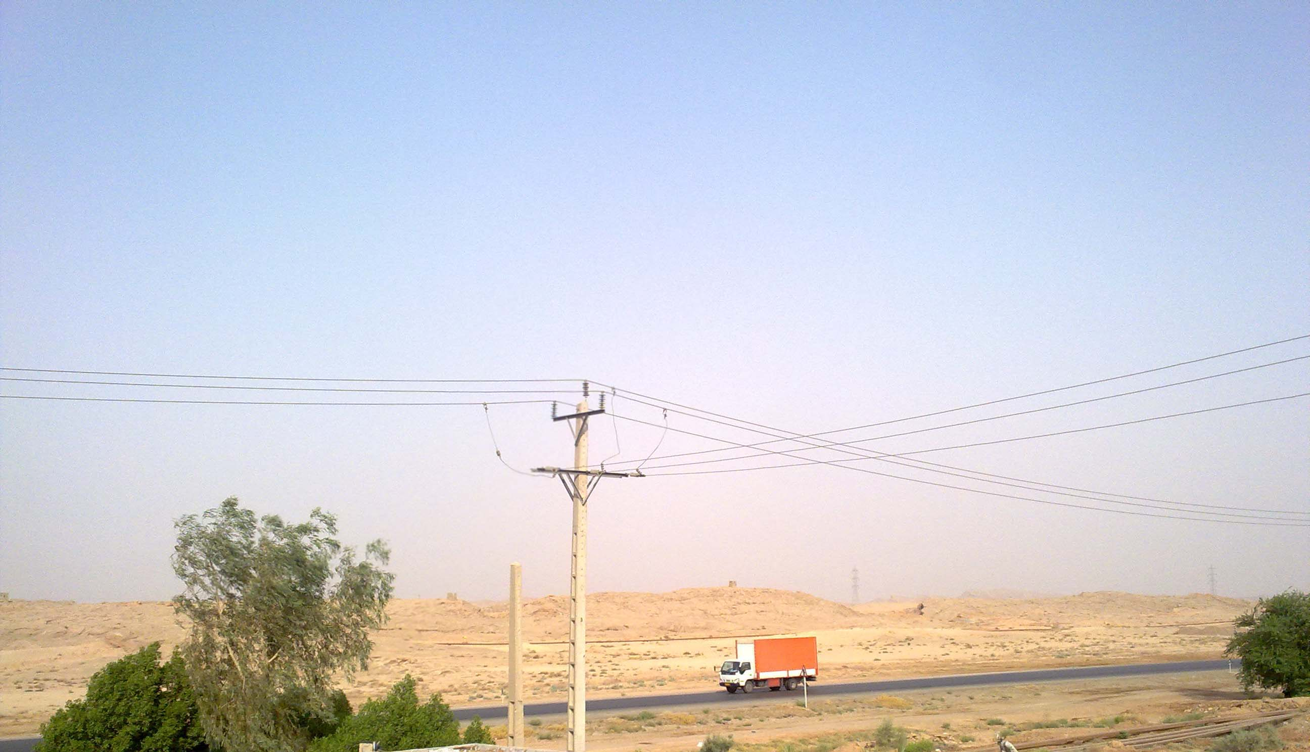 this picture of Abdullah Amori country in Ramshir City . in khouzestan province ,iran